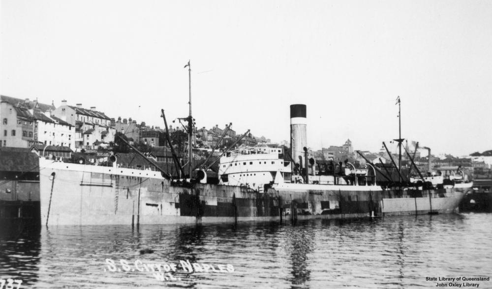 Ellerman Lines' cargo steamship City of Naples, built in 1908 and wrecked on rocks off Ommaizaki, Japan in 1926